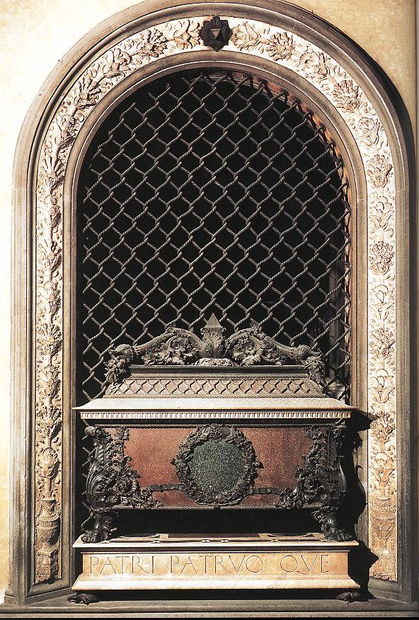 by Andrea del Verrocchio